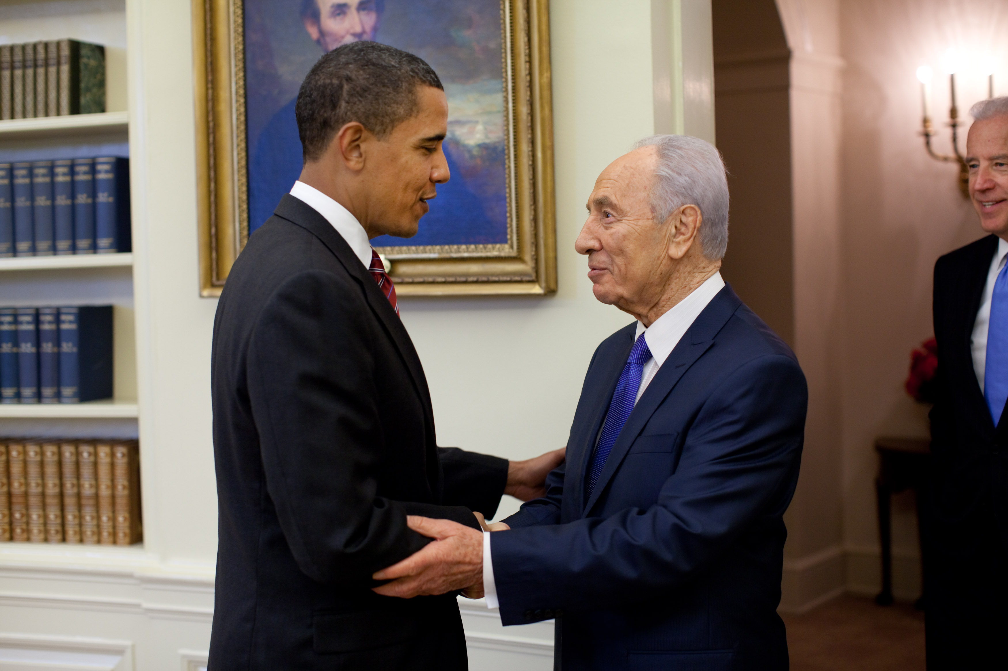 President Barack Obama welcomes Israeli President Shimon Peres in the Oval Office Tuesday, May 5, 2009. At right is Vice President Joe Biden. Official White House Photo by Pete Souza.